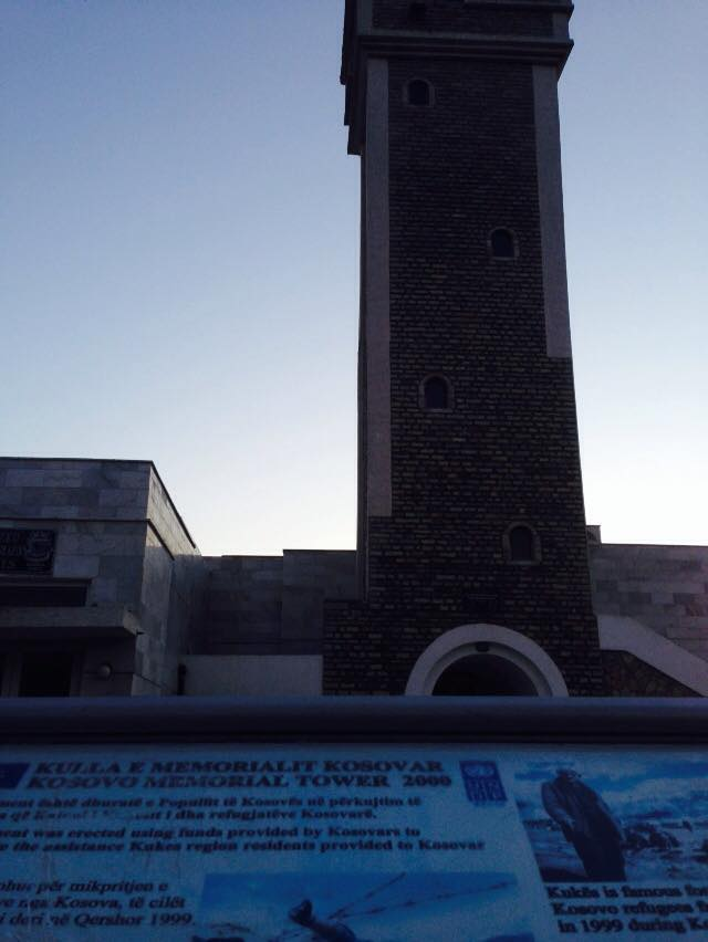 Kukes